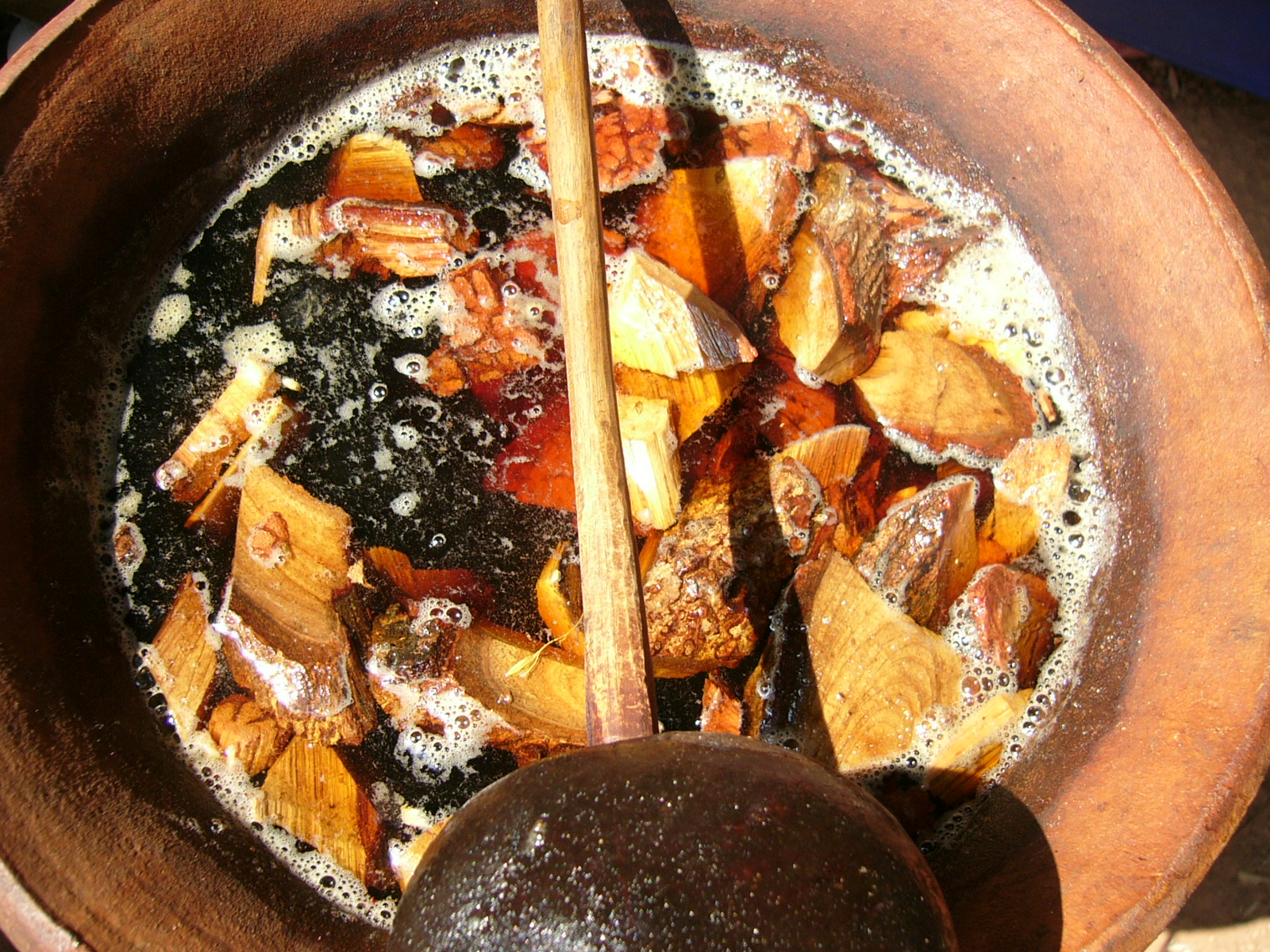 Cooked wood pieces for medical purposes, seen at Wat Kham Chanot Market, Amphoe Ban Dung, Udon Thani Province, Thailand (Isan)